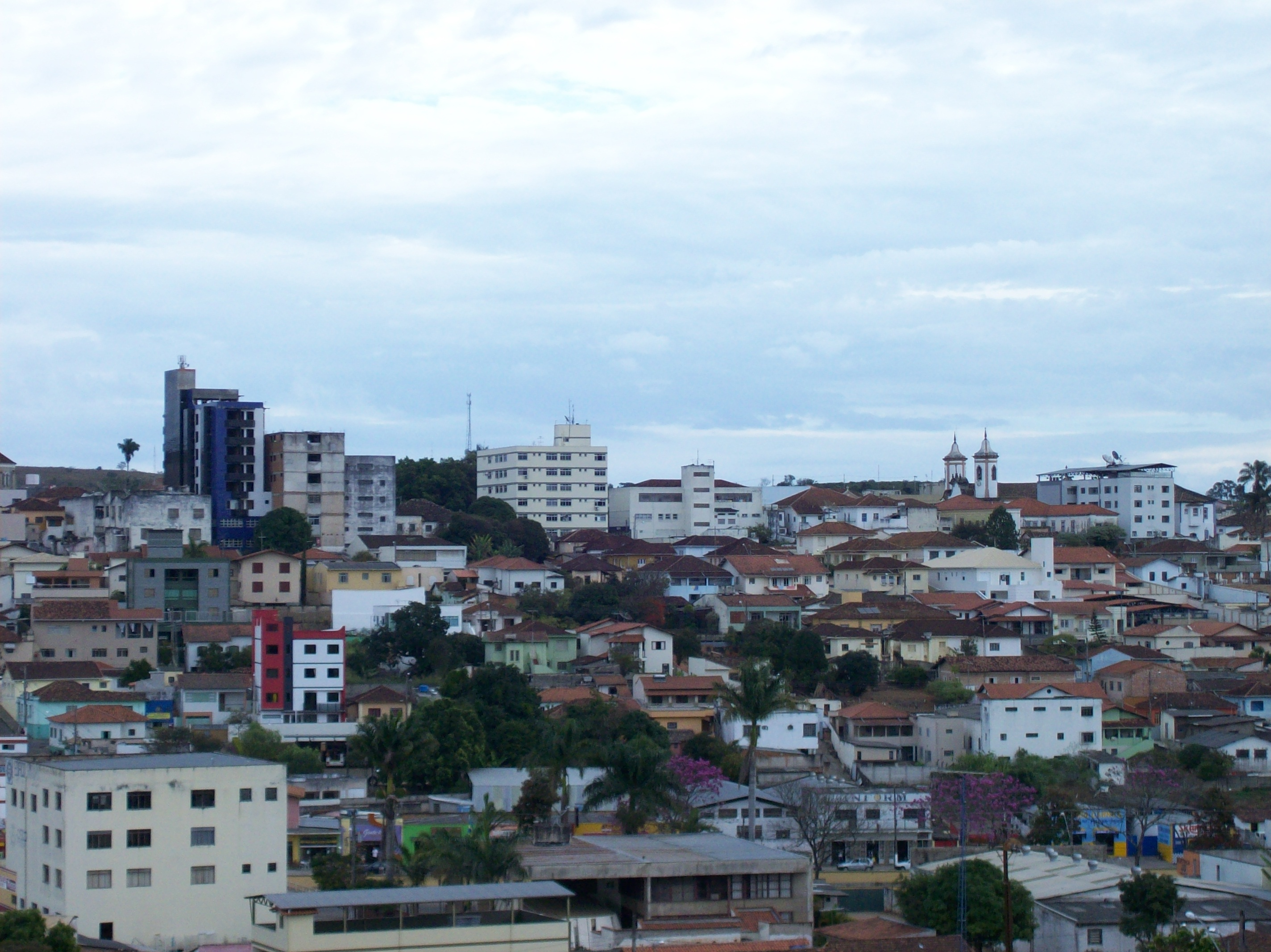 Buildings of Oliveira